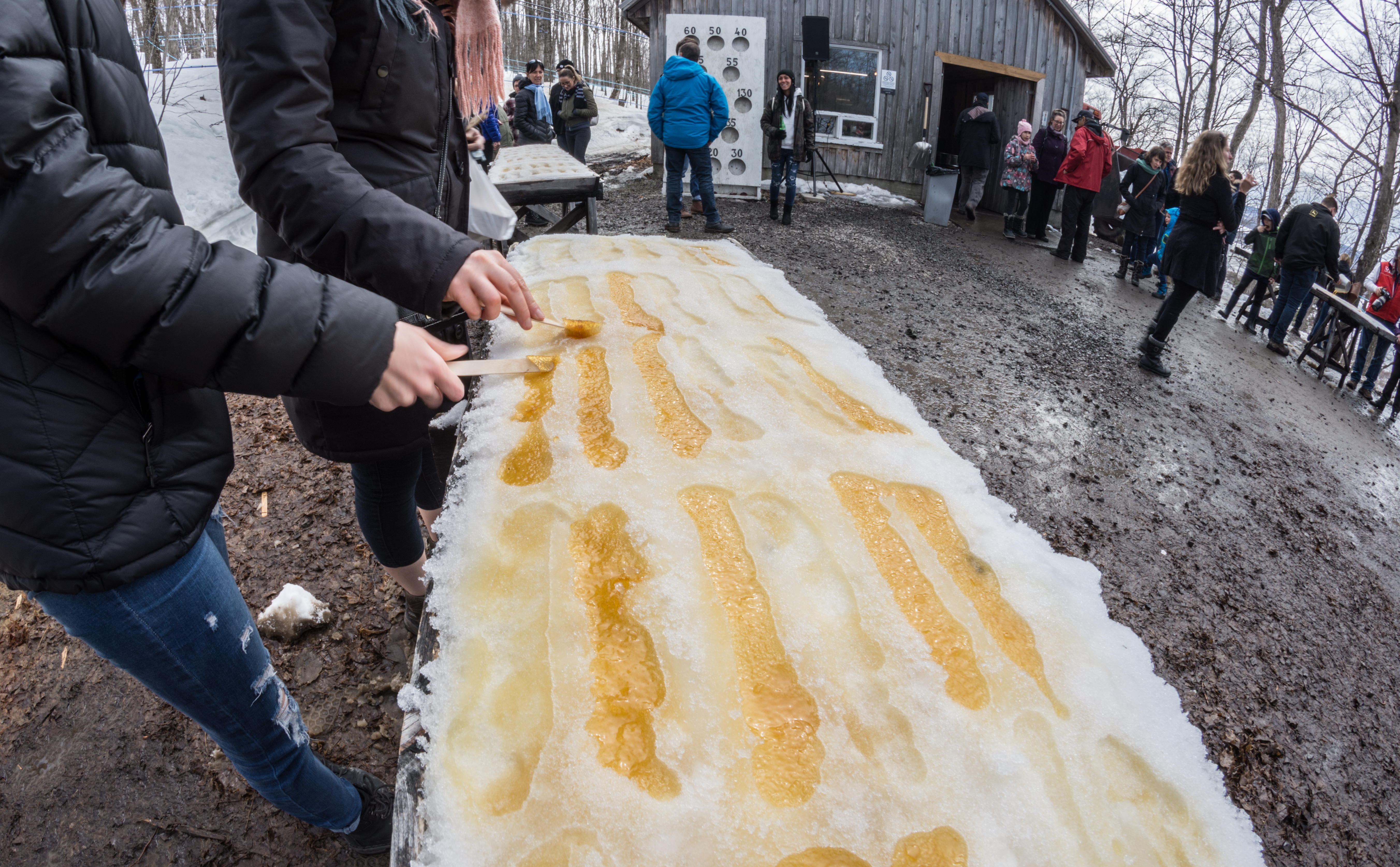 Cabane à Sucre La Sucrerie Blouin